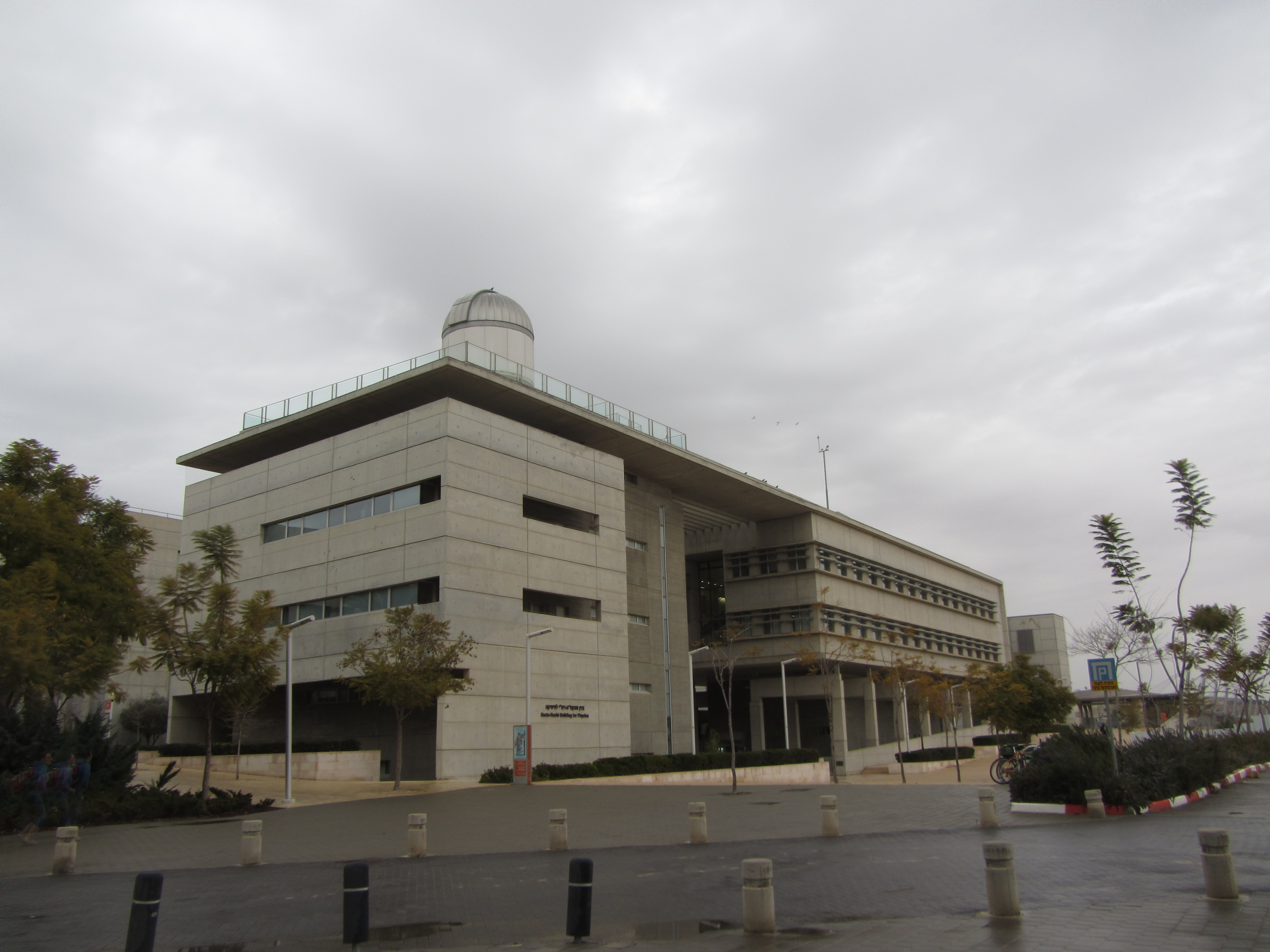 The Rashi building of the Ben gurion university department of physics.